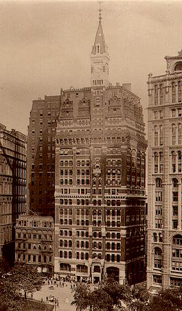 New York Tribune building, Richard Morris Hunt (1827-1895) architect. The location is now the site of the Pace Plaza complex of Pace University in New York City.